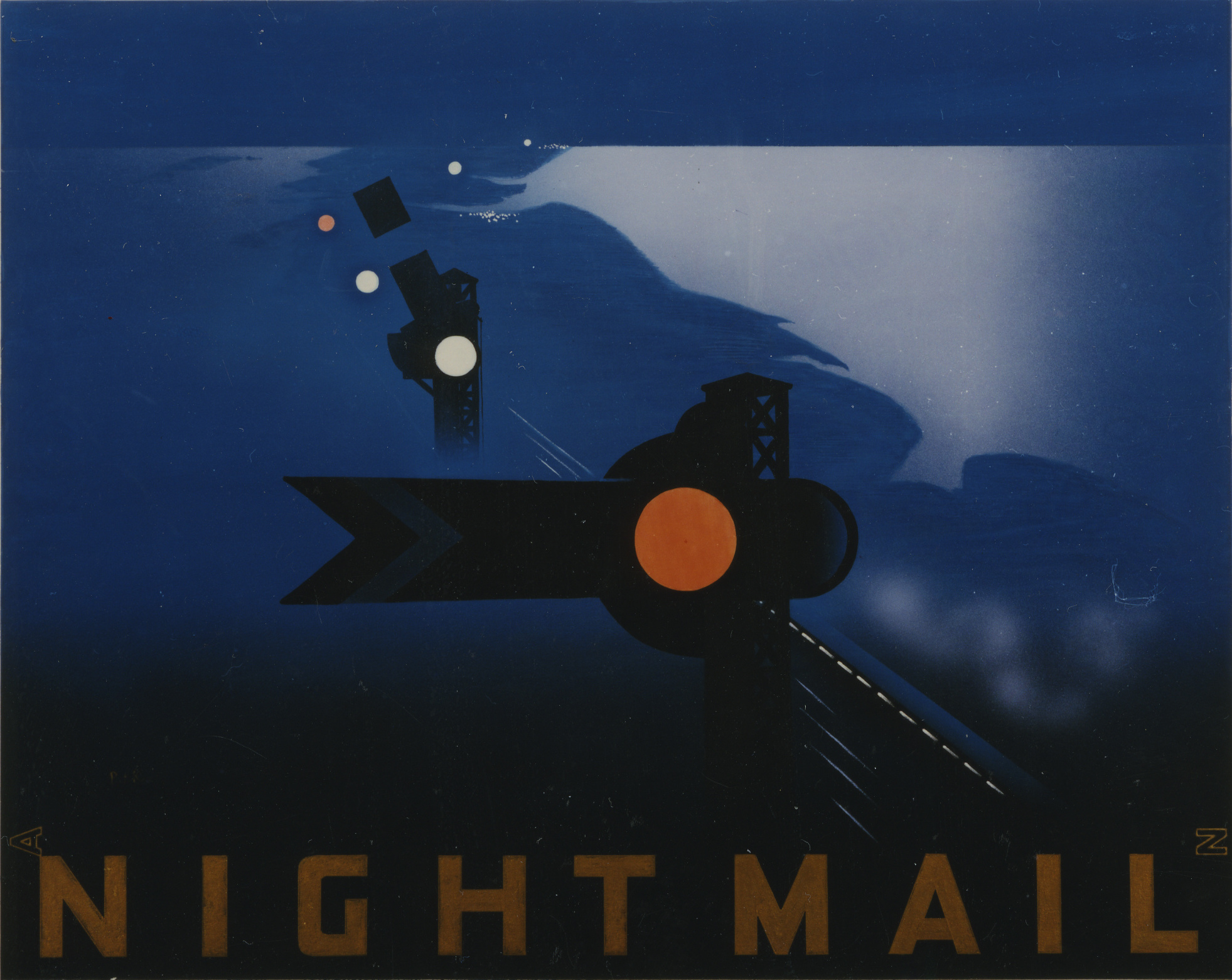 Publicity poster original artwork for the documentary film Night Mail by the GPO Film Unit